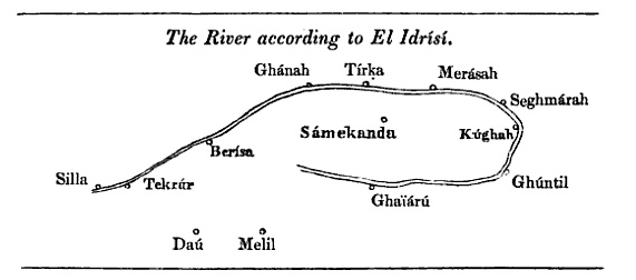 Conjectural sketch of the Senegal River based on the descriptions of Arab geographer Muhammad al-Idrisi of Sicily in 1154, as reconstructed by William Desborough Cooley in The Negroland of the Arabs examined and explained; or, An inquiry into the early history and geography of Central Africa London: Arrowsmith, 1841 p.53.